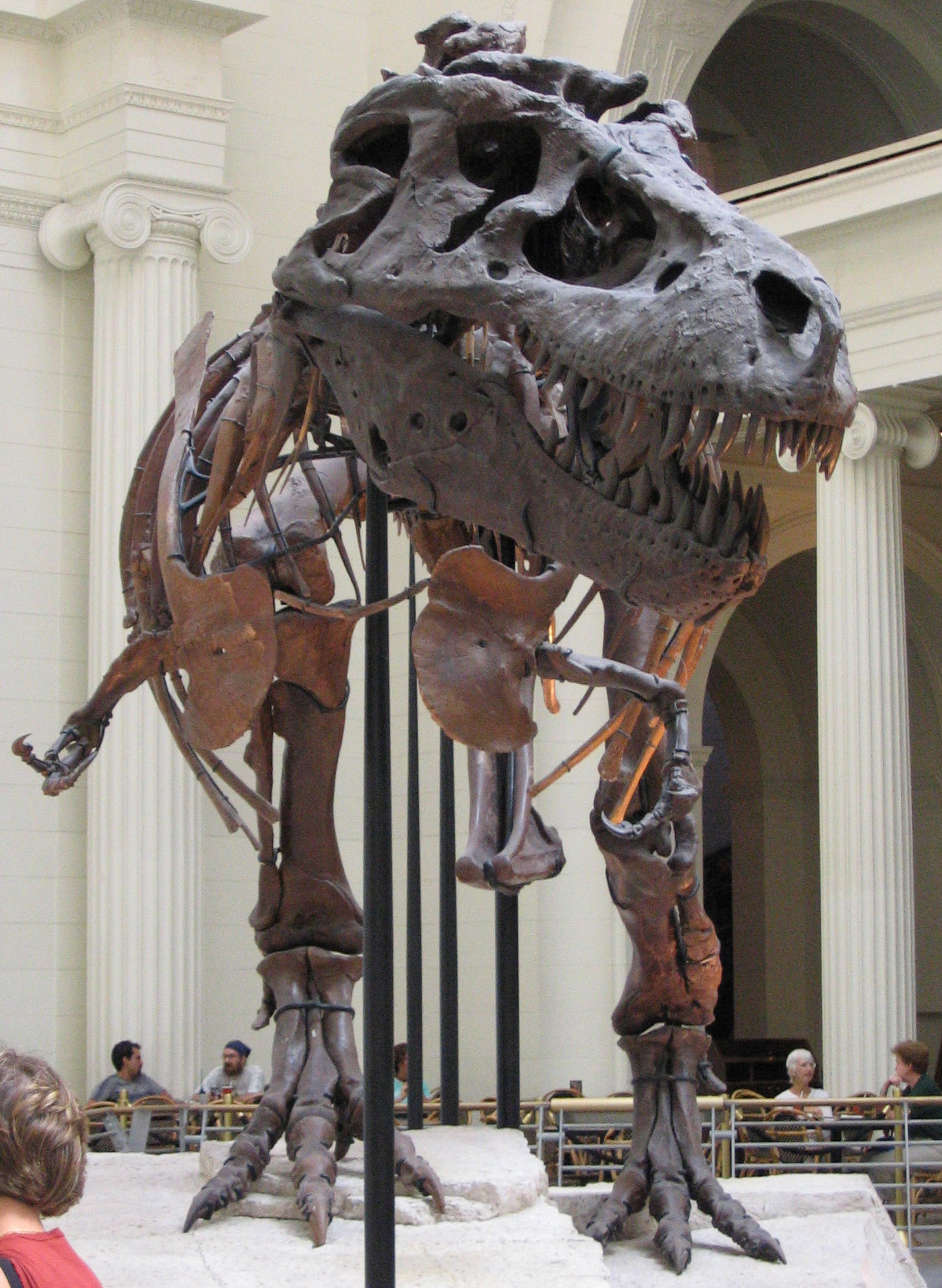 The photograph was taken in summer 2005 in the Field Museum of Natural History at Chicago, Illinois by the uploader. The dinosaur shown is a Tyrannosaurus rex named “Sue” after its finder Sue Hendrickson. Because not all of the fossils bones of the skeleton where found, the missing ones were made out of clay by preparators.